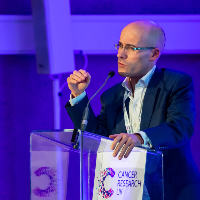 Professor Charles Swanton speaks at a conference